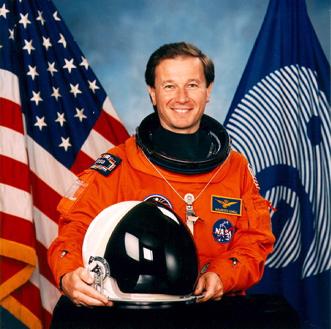 Maurizio Cheli, Italian astronaut and pilot, flew on STS-75